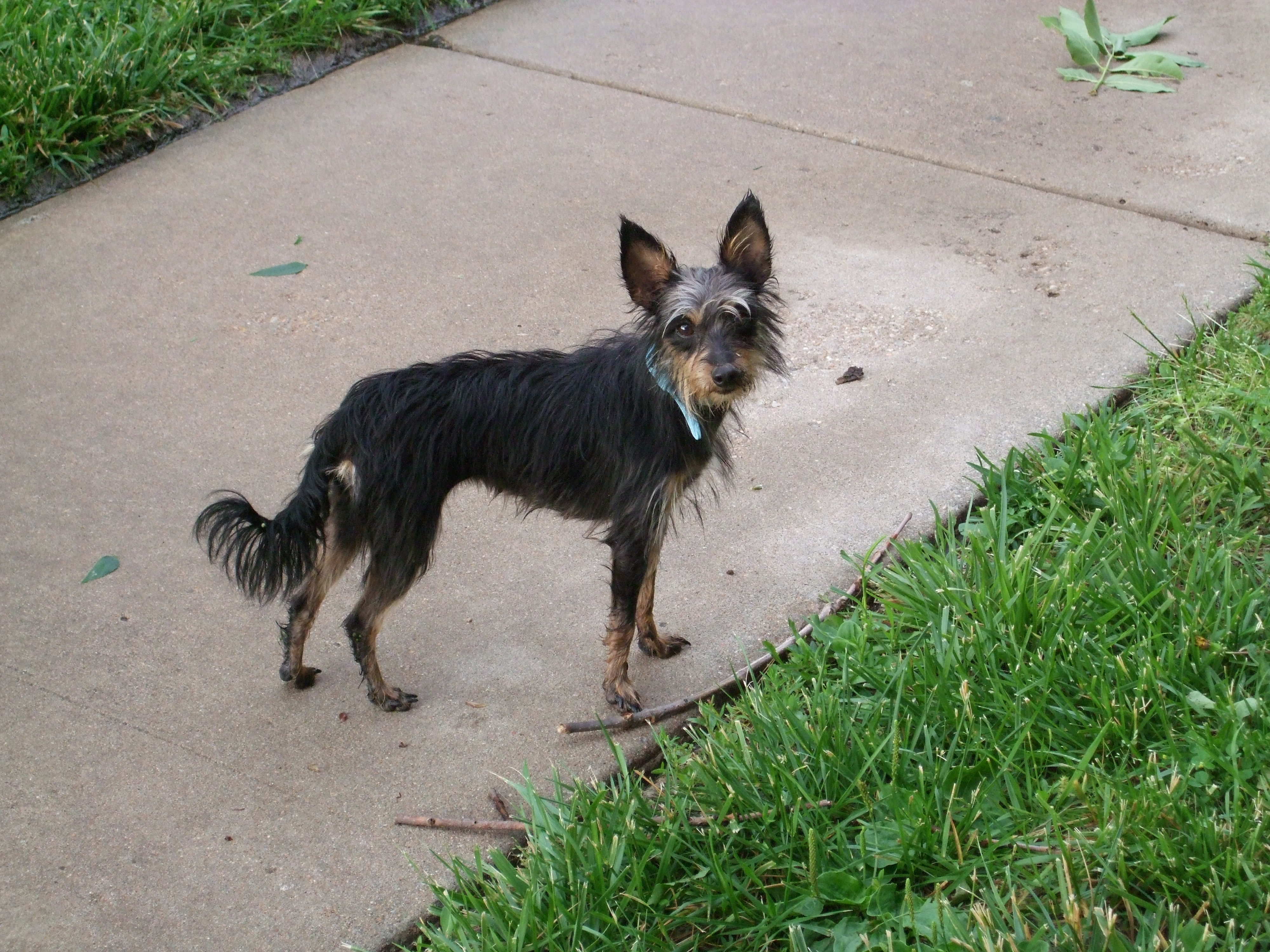 My Yorkie Pin